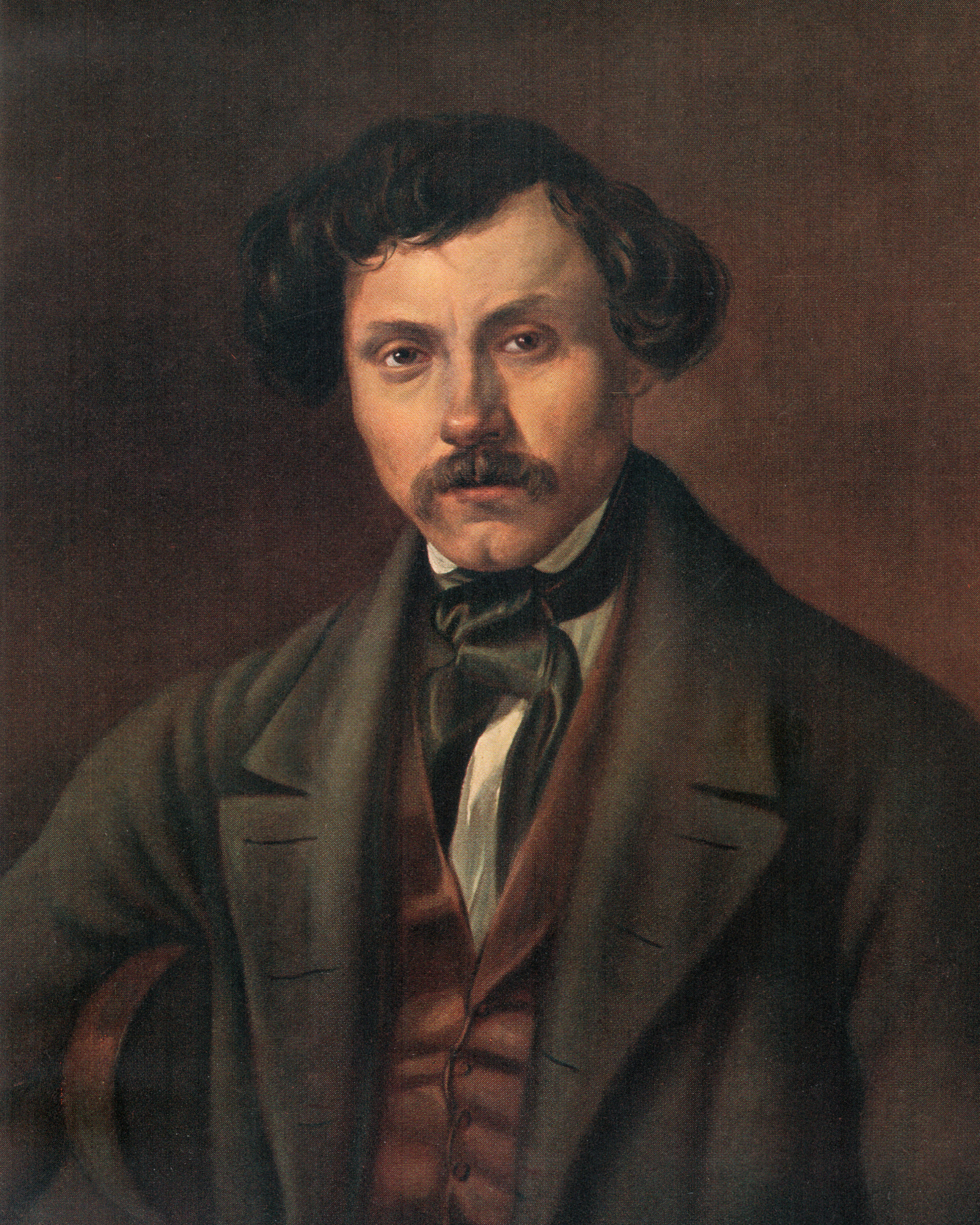 Vincenc Josef Rott, founder of the V. J. Rott company in Prague, portrait by Canon Straširybka, 1856